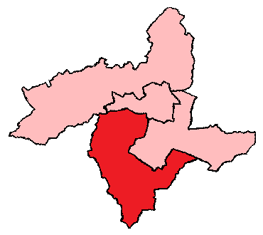 1918-1949 Bradford South Other information this is a simplified version of a map originally created by the UK Boundary Commission.